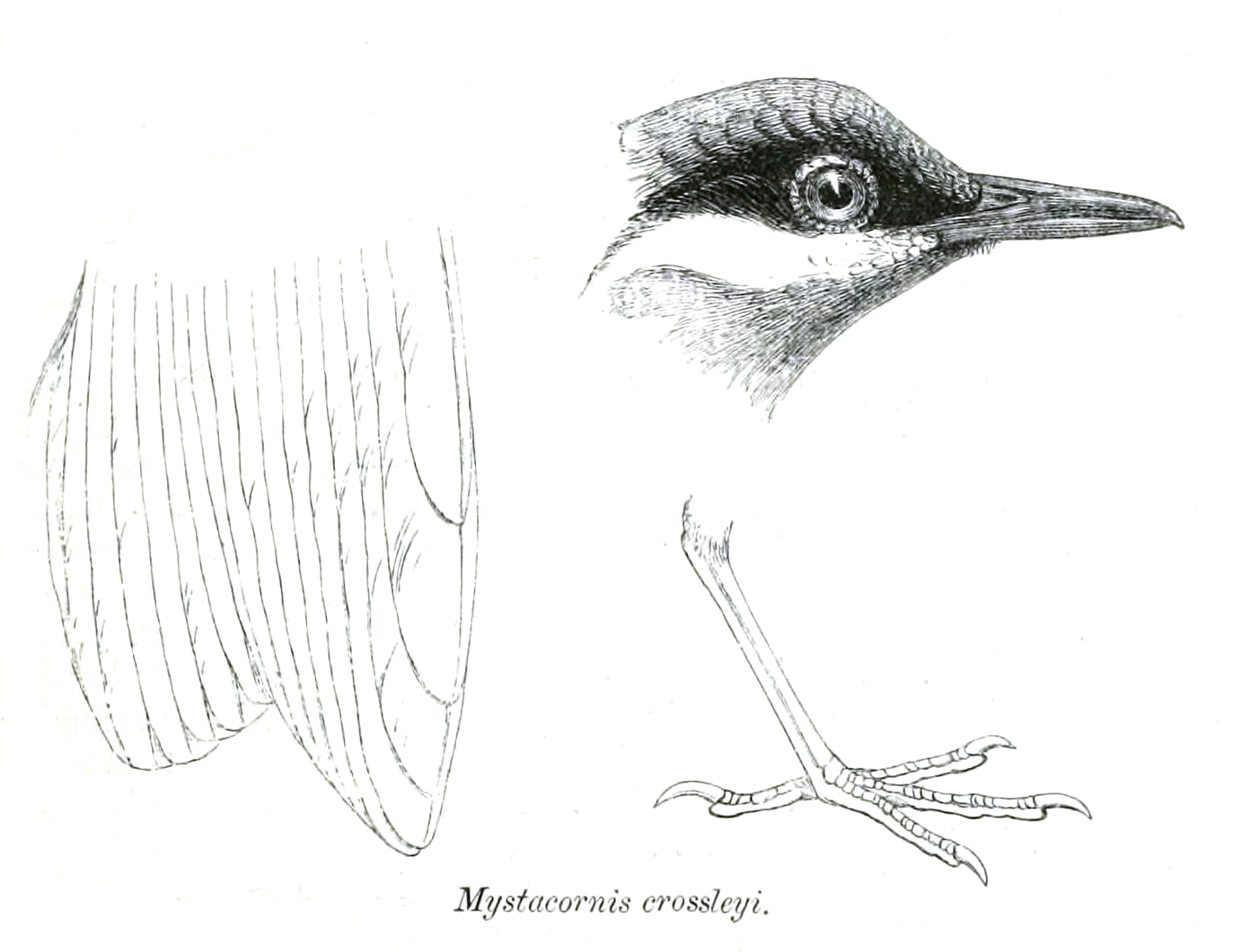 Crossley's Babbler-vanga; head from lateral, foot from lateral, remiges tips from ventral